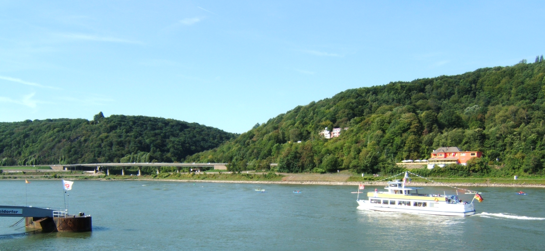 This image shows the rhine in Unkel, viewed towards Remagen.